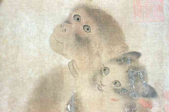 A fragment of Yi Yuanji's painting, "Monkey and cats" (猴猫图). Northern Song Dynasty. The monkey is a macaque, according to Robert van Gulik.